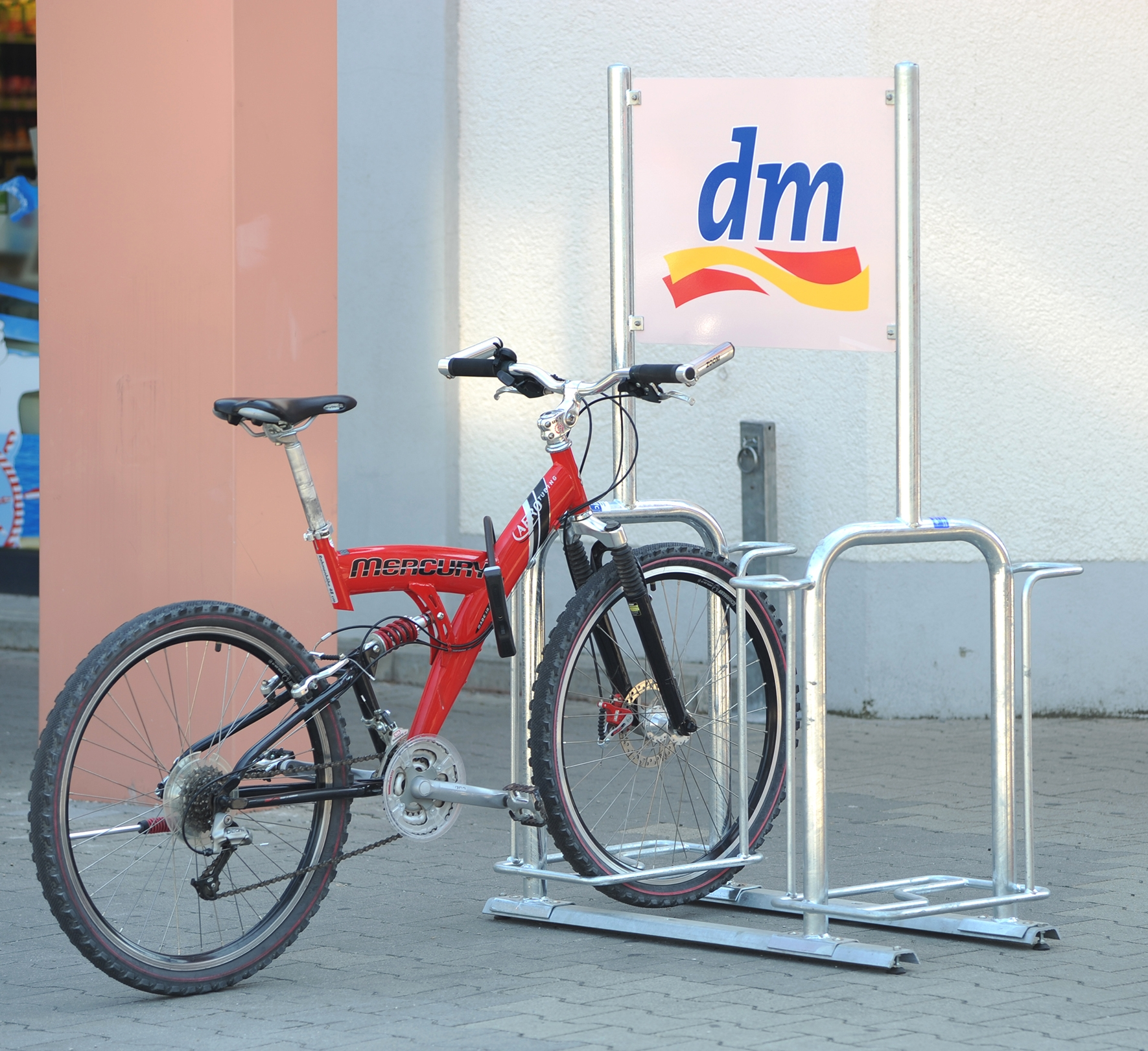 mobile bicycle rack with advertising space